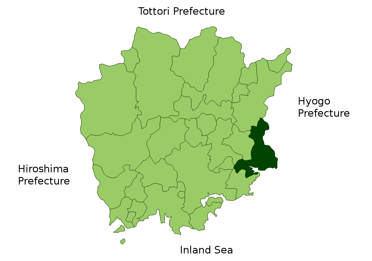 Map of Okayama Prefecture highlighting Bizen city. Borders of map as of July, 2006. (blank map used from [1]) See also Image:OkayamaMapCurrent.png.